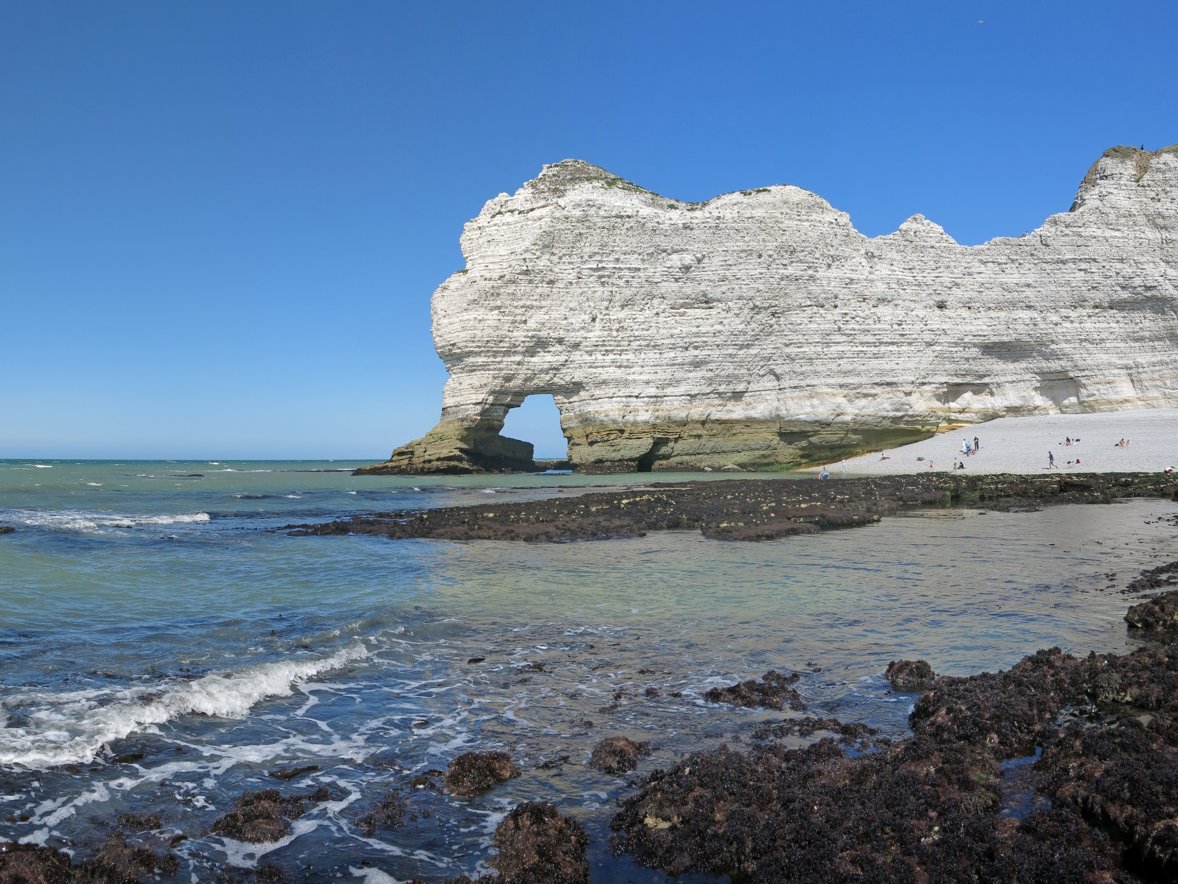 Natural arch Porte d'Amont near Étretat, Normady, France